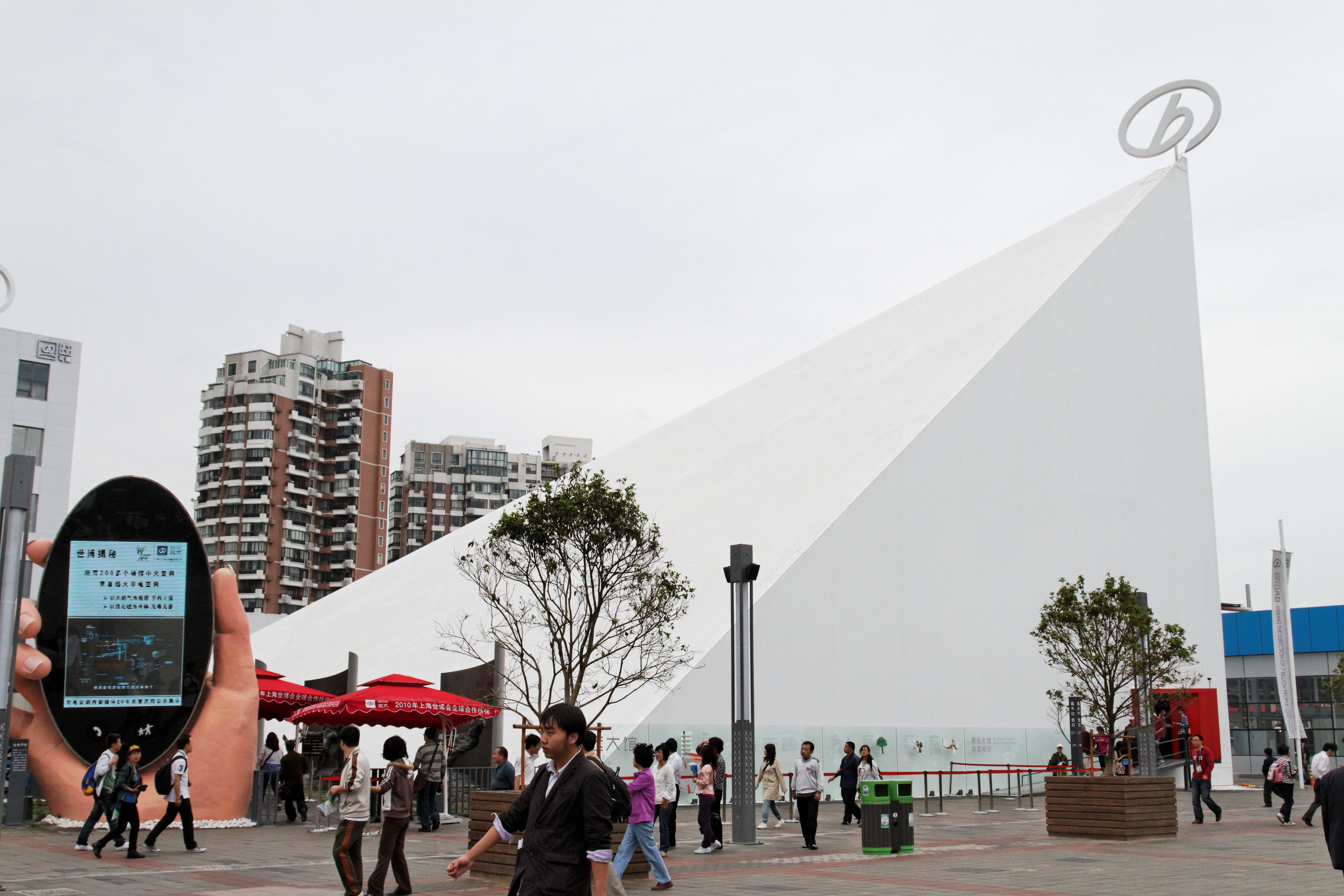 Broad Pavilion, Expo 2010